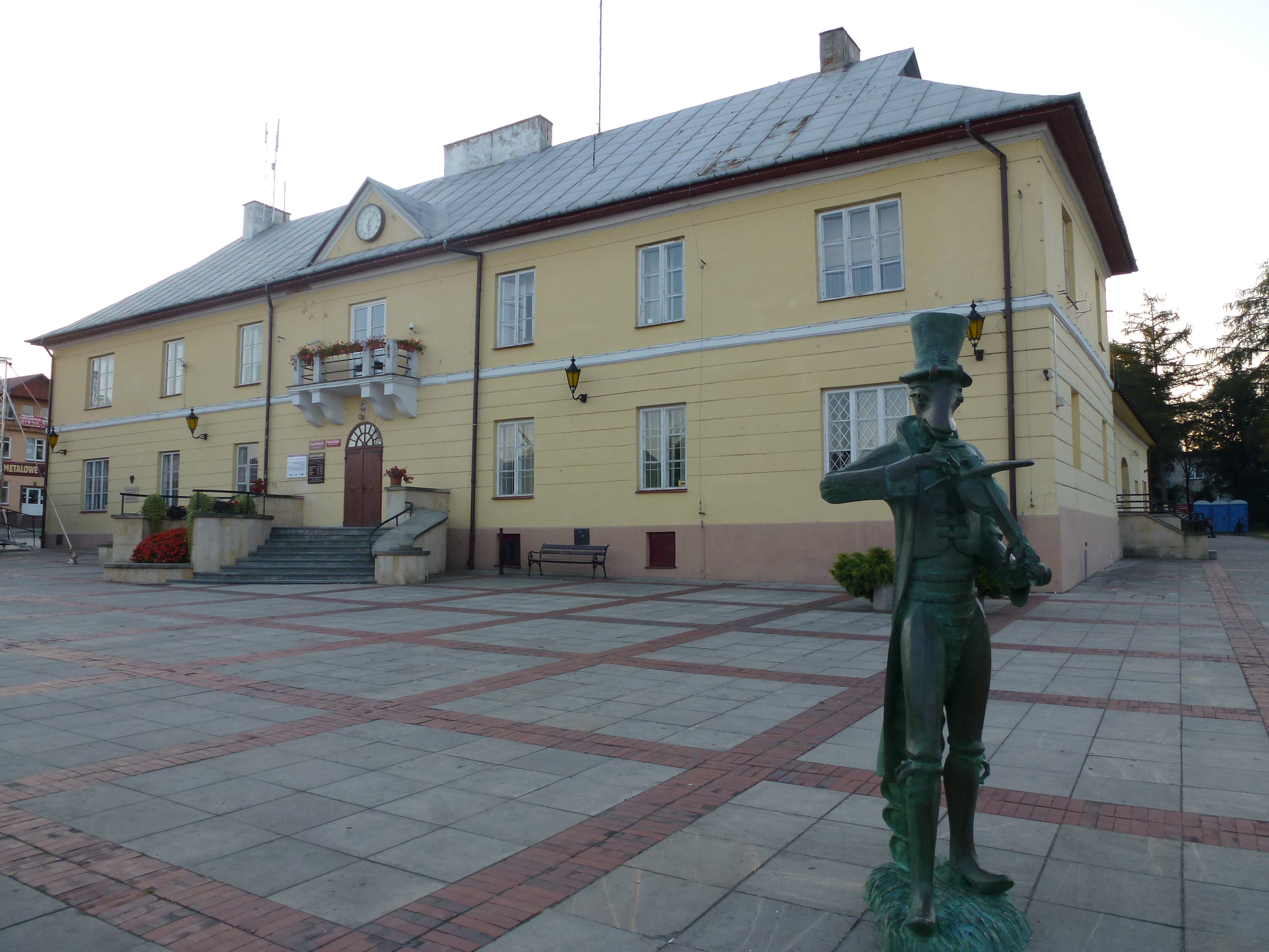 Szczebrzeszyn town hall, Poland